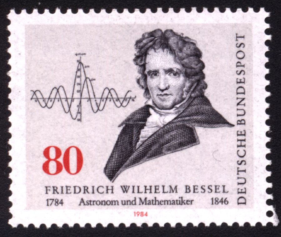 200th day of birth of Friedrich Wilhelm Bessel (1784—1846)